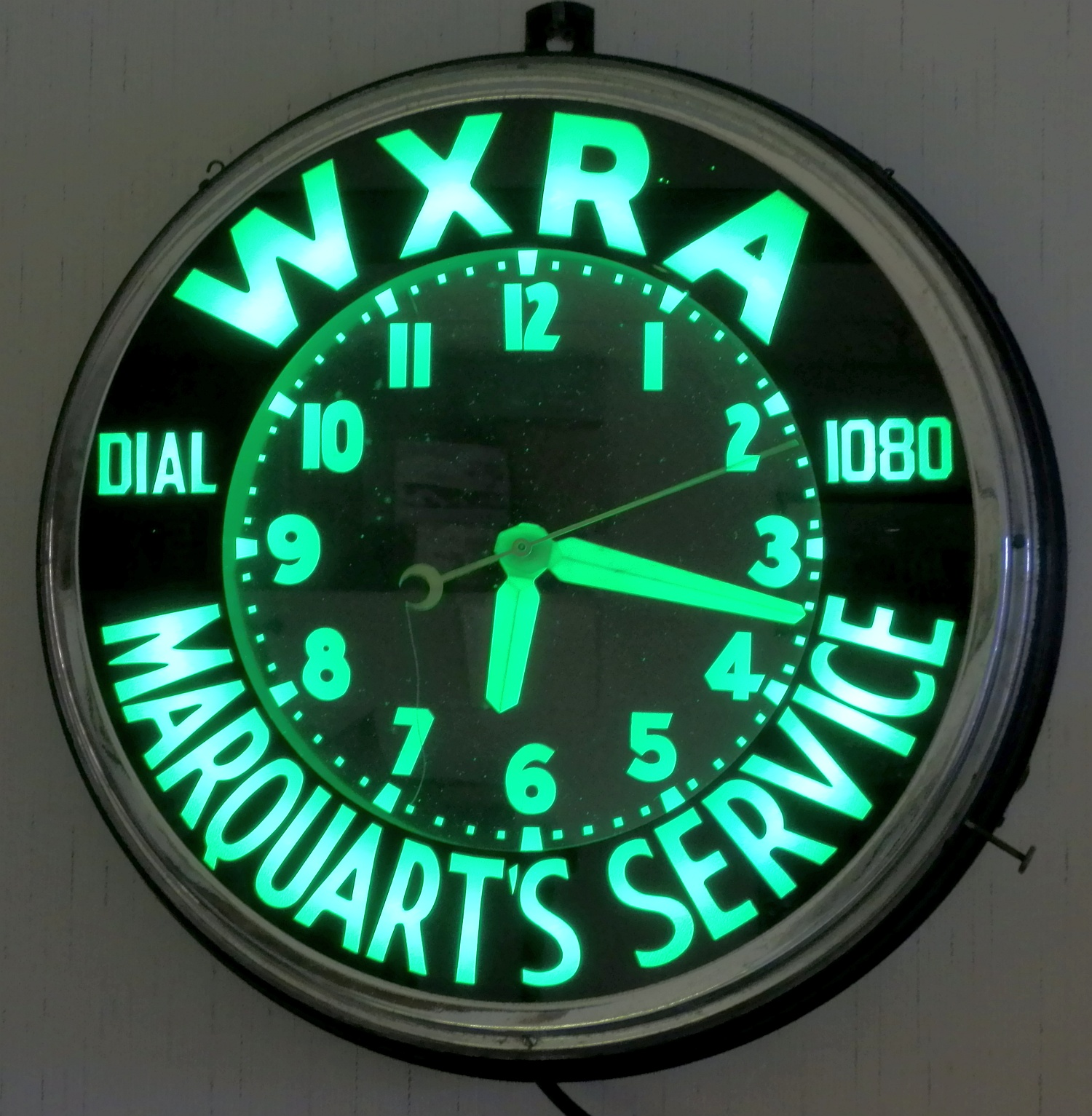 A black and green neon-lit clock cross-promoting WXRA and a local auto service station called Marquart's which was located at Colvin Avenue and Kenmore Avenue in Kenmore, NY.